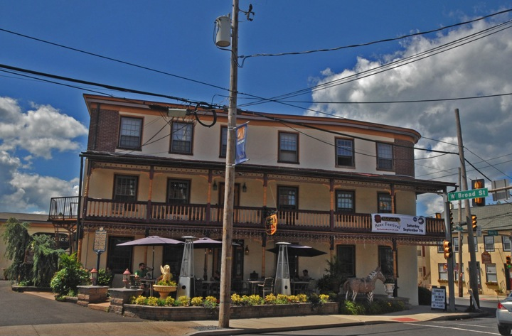 McCoole’s Red Lion Inn opened in 1750. In 1798, the tavern was used as a meeting place for German farmers protesting a house tax which they felt was to sponsor a British monarchy in the U.S., and also because of their opposition to the war with France. The leaders were to be hanged in front of the tavern, but were pardoned by President Adams. A Pennsylvania historical marker can be seen on the left commemorating the event.